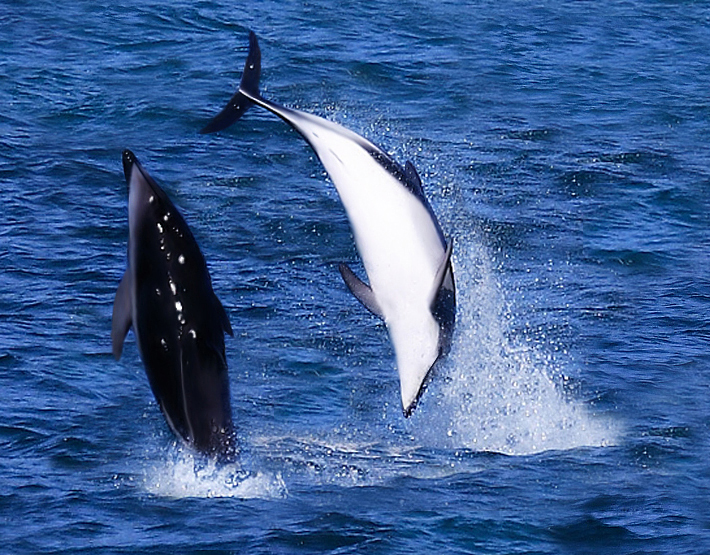 dusky dolphins named "Caligo" and "Umber".